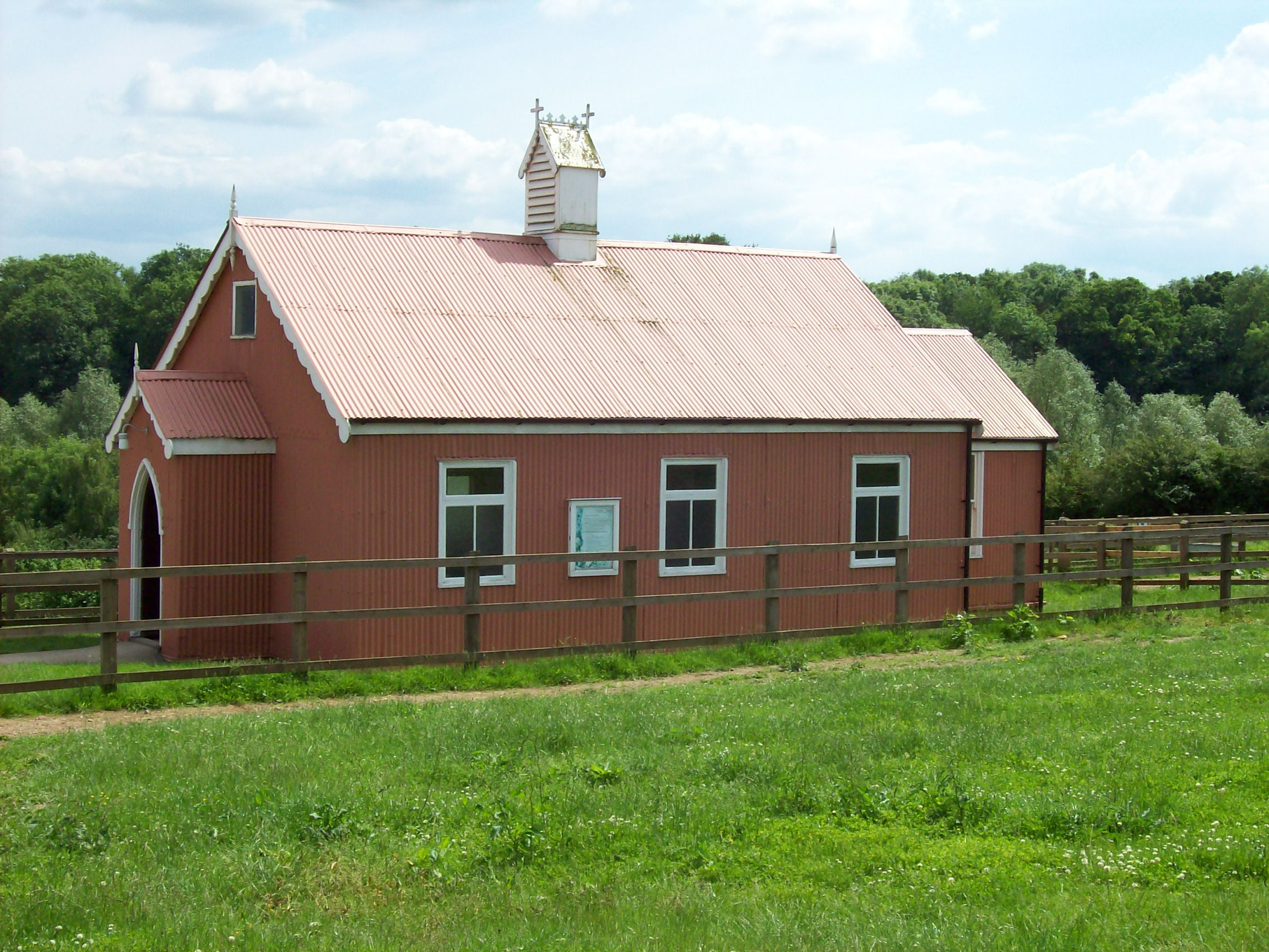 The re-erected chapel from Cuxton at the Museum of Kent Life